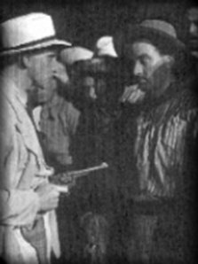 Film "Prisioneros de la tierra" (1939). Argentina. Director: Mario Soffici. In the picture Francisco Petrone (left) menacing Ángel Magaña (right).